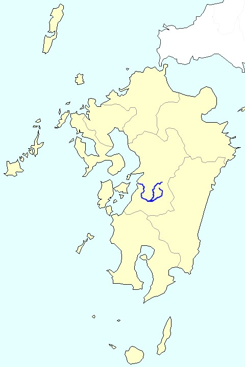 Kuma River location in Kyushu, Japan.